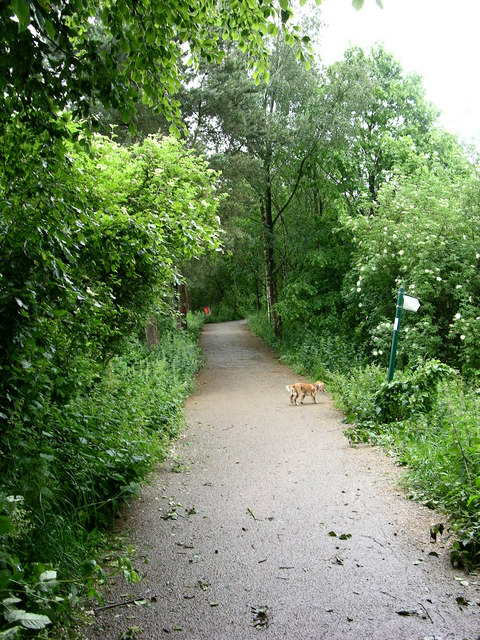 Start of Kirklees Trail, Greenmount The Kirklees Trail is a 2.5 km shared use path for walkers, cyclists and horseriders along a former railway line (currently) between Tottington and Greenmount. At one time Greenmount village was a stopping point from Bury to Holcombe Brook via a rail line operated by the Lancashire & Yorkshire Railway, this line was closed to passengers in 1968. The old rail line is now the central footpath through a park and nature trail through Kirklees Valley called Kirklees Trail, this trail provides an alternative flat route for pedestrians to access the neighbouring town of Tottington (the alternative route by road involves negotiating two steep hills via the A676 or 'Stormer Hill'). There is also a lake popular with fishermen, an impressive bridge over the river, a bird sanctuary (Greenmount Wild Bird Sanctuary)and a cricket club all situated along the trail.